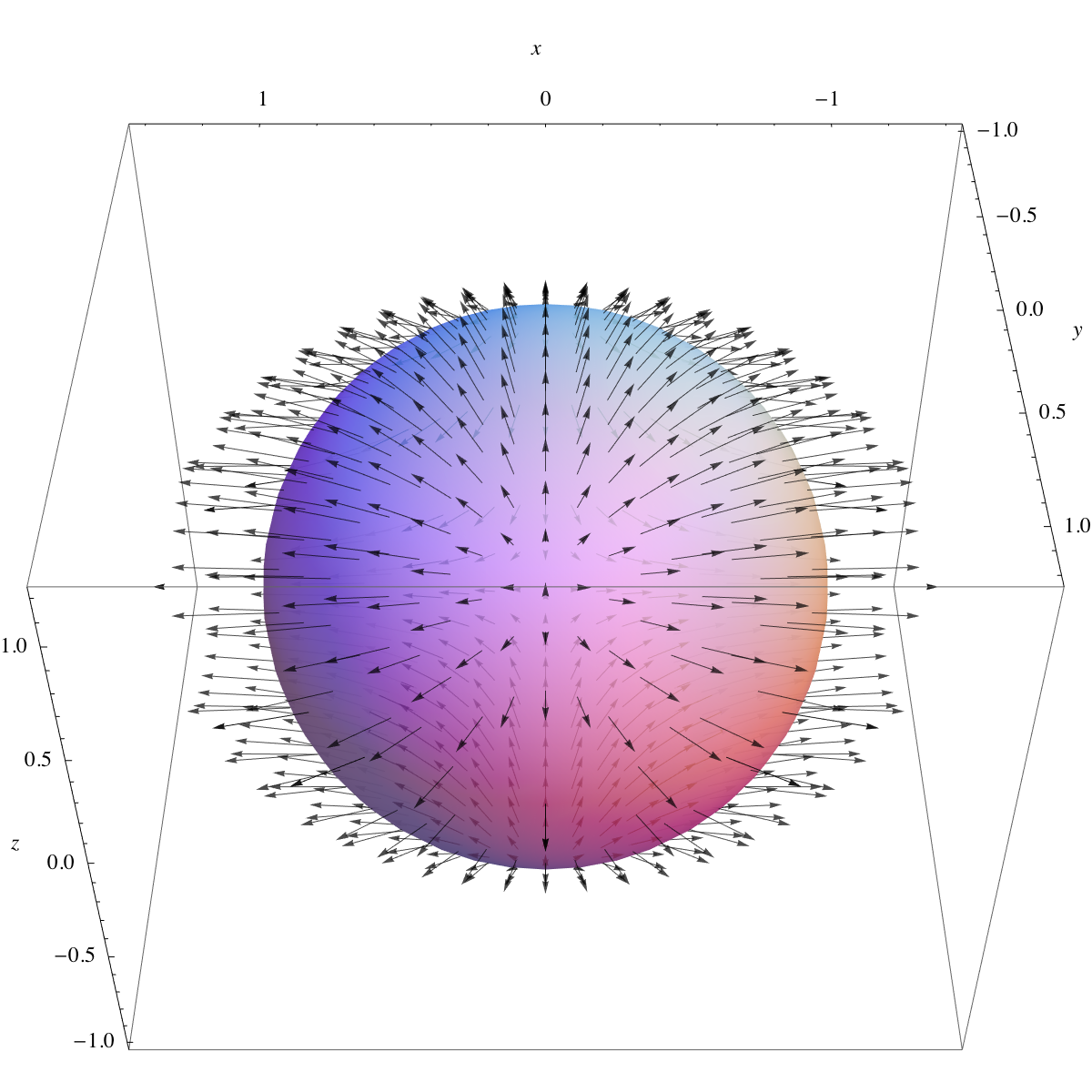 The vector field represented by f = 2 x x ^ + y 2 y ^ + z 2 z ^ {\displaystyle \mathbf {f} =2x{\hat {\mathbf {x} +y^{2}{\hat {\mathbf {y} +z^{2}{\hat {\mathbf {z} } plotted over the unit sphere. Vectors have been uniformly scaled down to 0.2 times their original length for aesthetics. Originally created as an image for the example problem on the divergence theorem page to replace the less relevant image here.